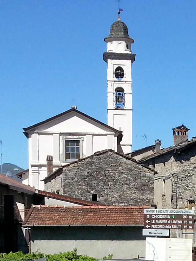 Chiesa di Santa Maria Maddalena (Barna)